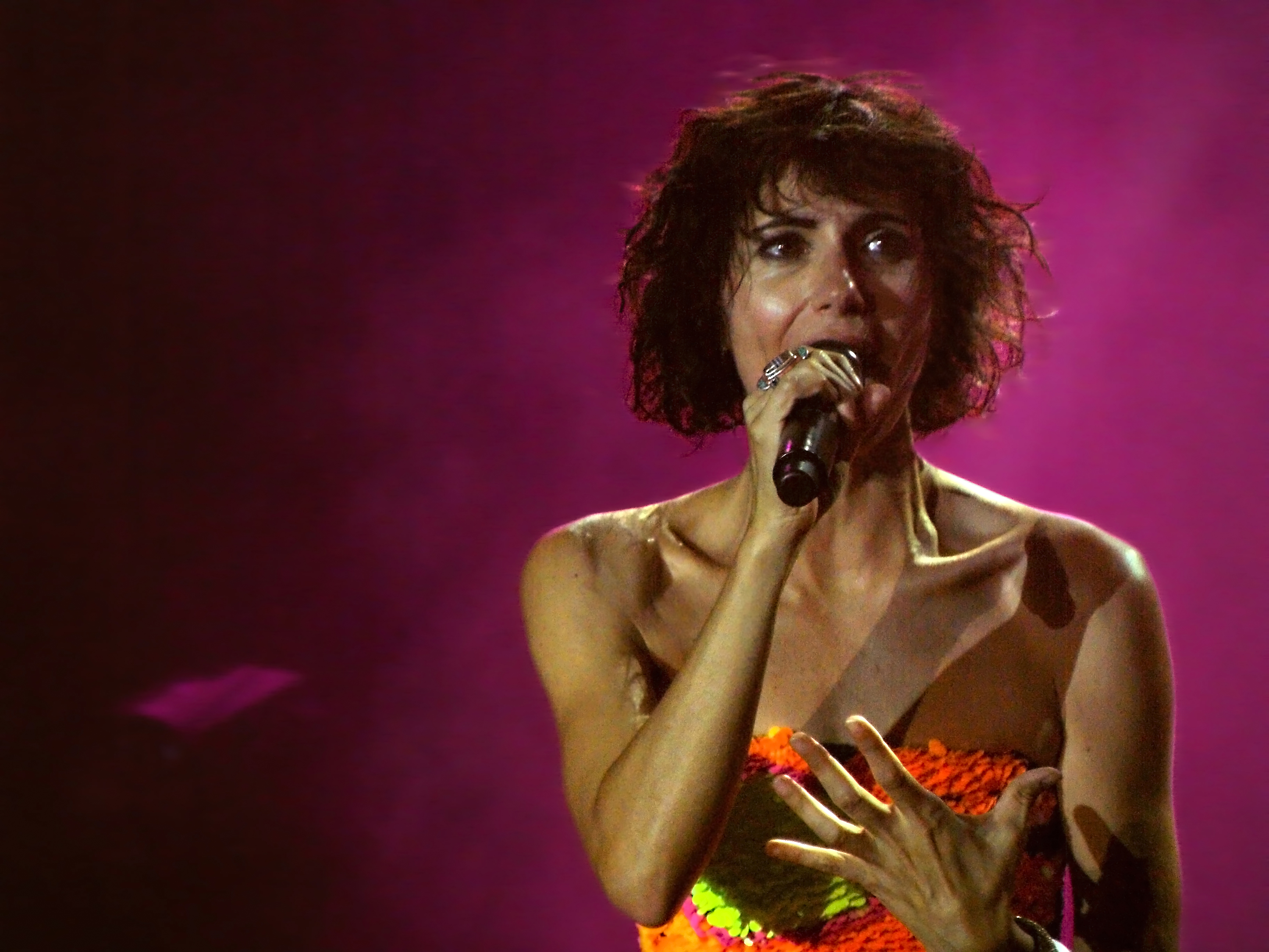 Giorgia Todrani - just known as Giorgia - on the stage of her concert in Milan, 19th of July 2012